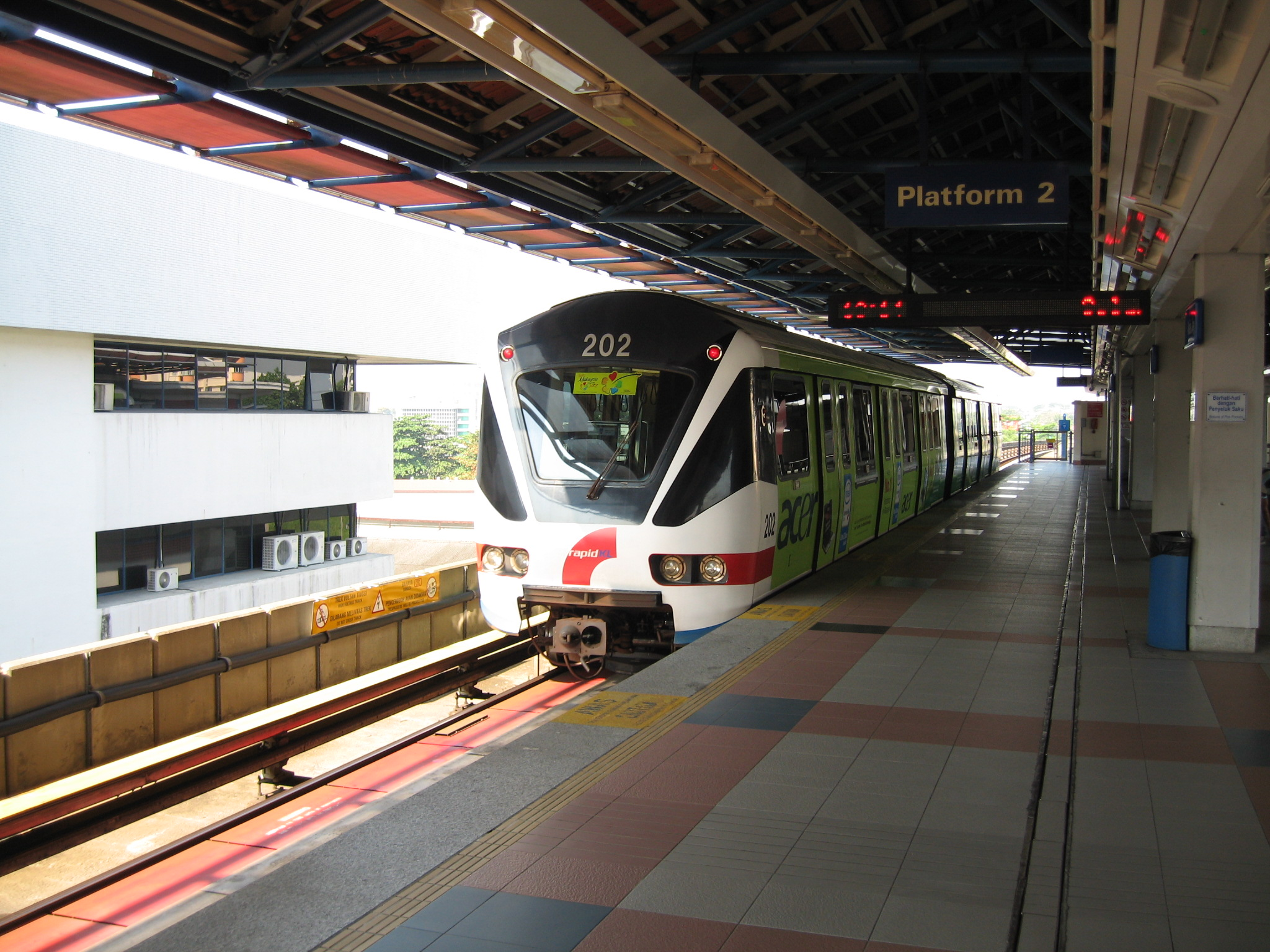 Train of Kelana Jaya Line in Kuala Lumpur at Asia Jaya station bound to Kelana Jaya.